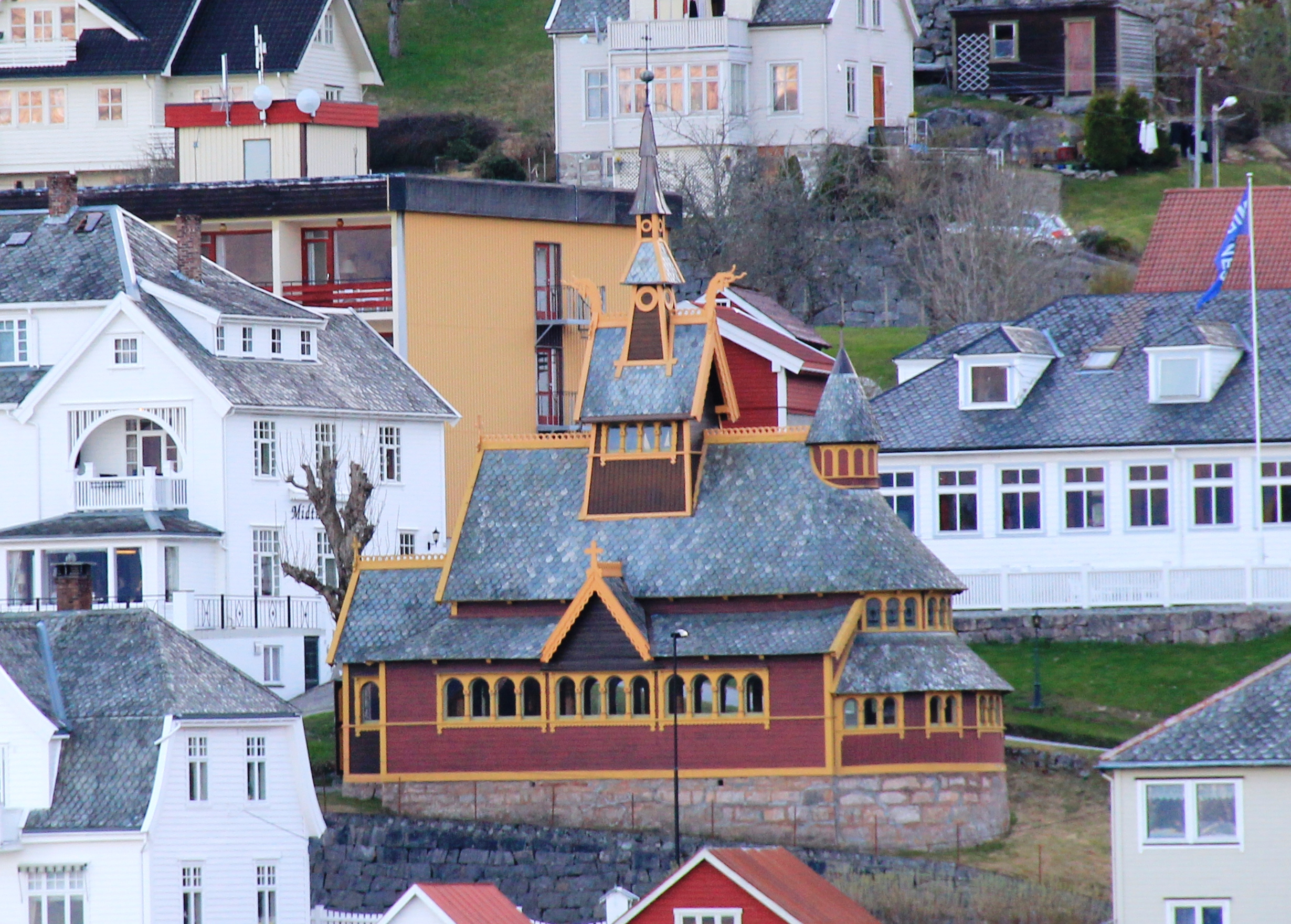 St. Olafs church, Balestrand, Norway - fjordview.